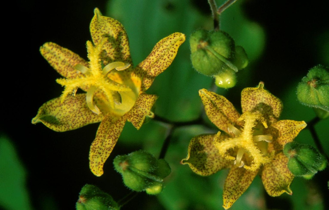 Tricyrtis_latifolia_Tamagawahototogisu_in_Ioudake_yatsugatakev 1997-8-23